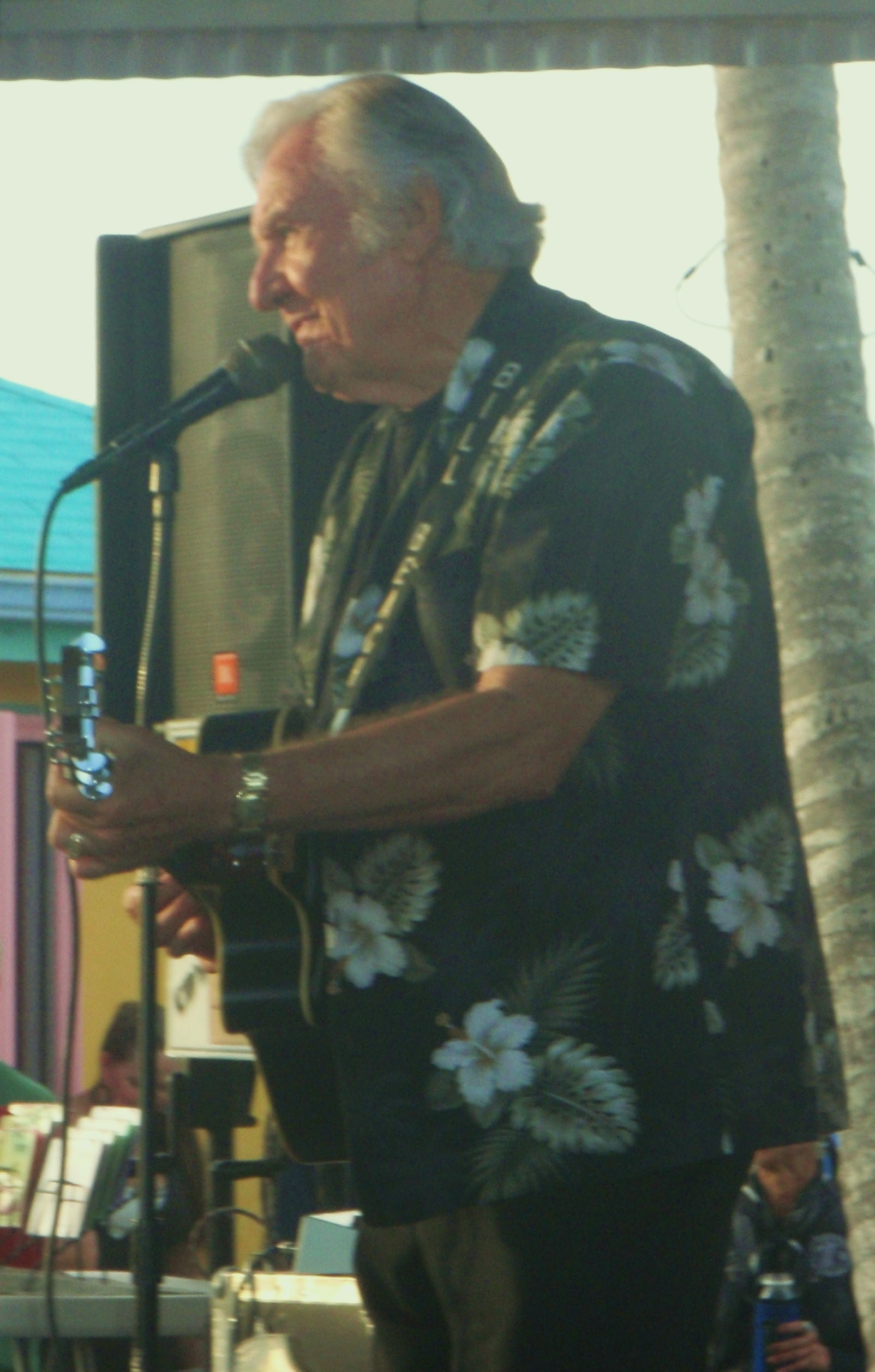 Bill "Peg Pants" Beach @ Stan's Idle Hour